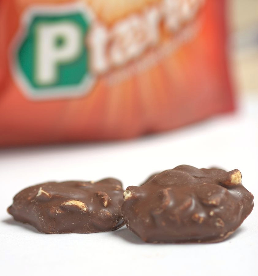 P-Tærte. Sweet from Danish manufaturer Carletti, made of french style nougat covered in peanuts and chocolate